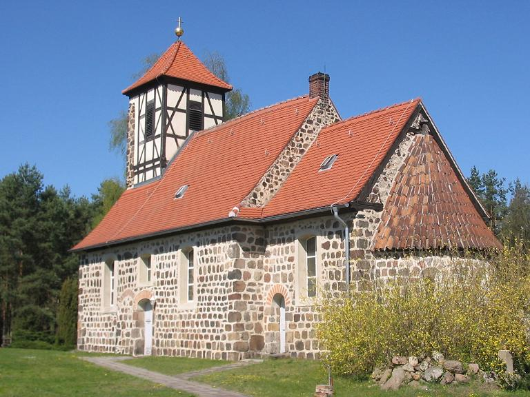 Stonechurch in Möllensdorf, probably built in 12th century. Möllensdorf is a municipality in the Nature park Fläming in the district Wittenberg, state Saxony-Anhalt, Germany.